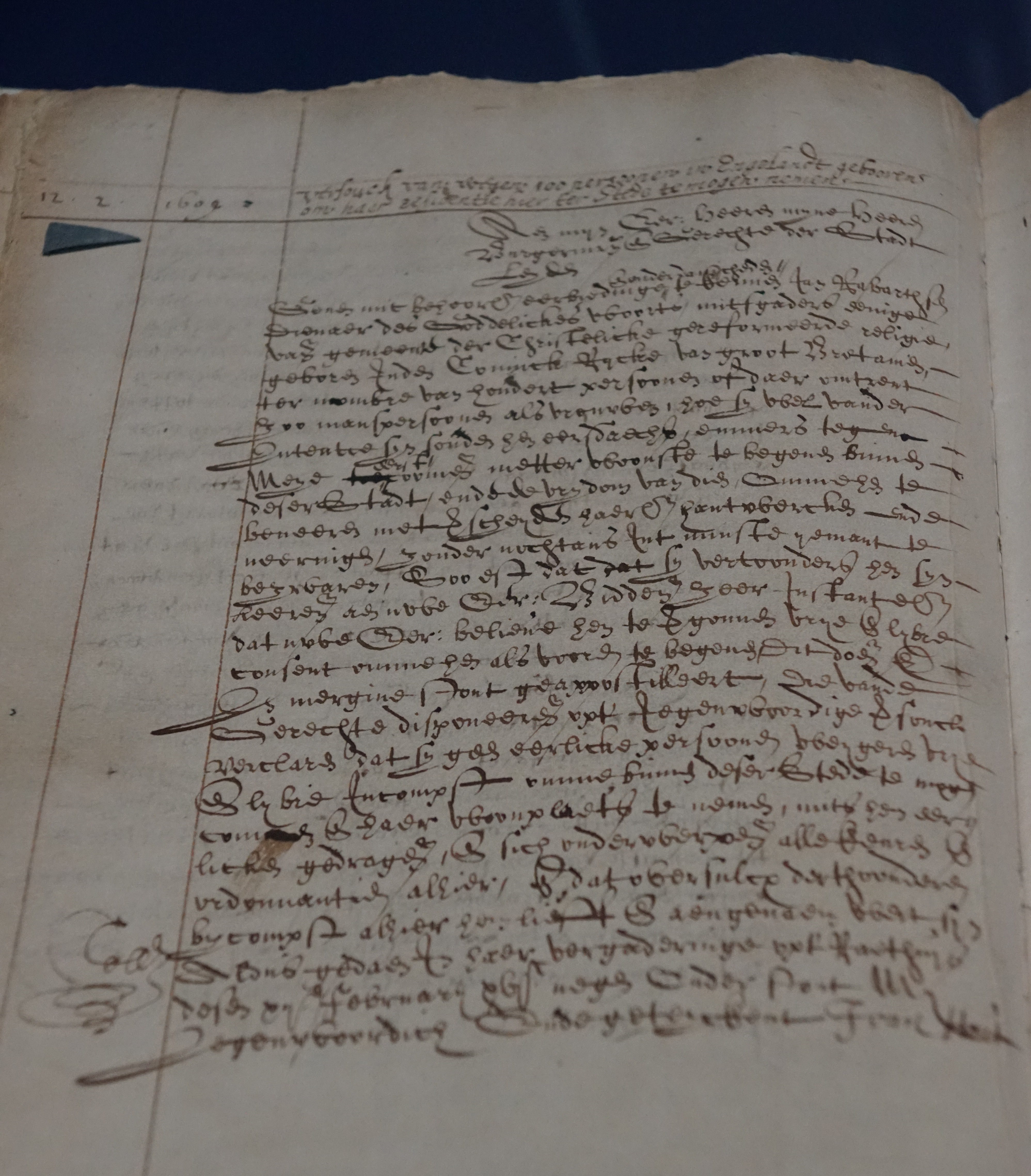 Permission from the city counsel (signed by Jan van Hout secretary) for the Pilgrims (around 100 men and women) to settle in Leiden, February 12th 1609 (Gerechtsdagboek G, folio 32v, Erfgoed Leiden en omstreken). Museum De Lakenhal, Leiden, The Netherlands. Photgraph taken during exhibit 'Pilgrims to Amerika - and the limits of freedom (2020).